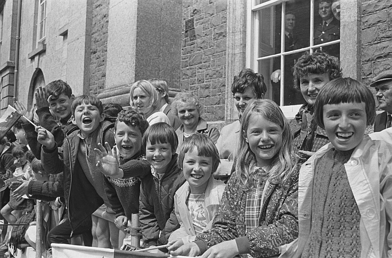 Photographs by Welsh photo journalist Geoff Charles Prince Charles' Investiture at Caernarfon Castle